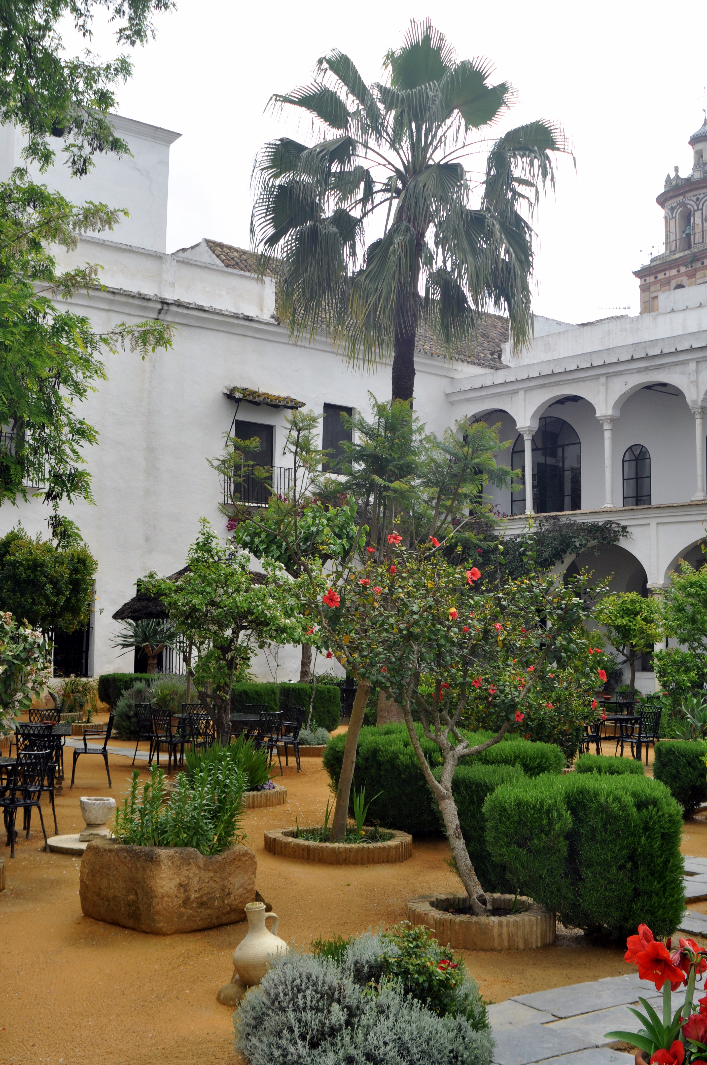 Gardens of the palace of the Dukes of Medina Sidonia. Sanlúcar de Barrameda, Cádiz, Spain.